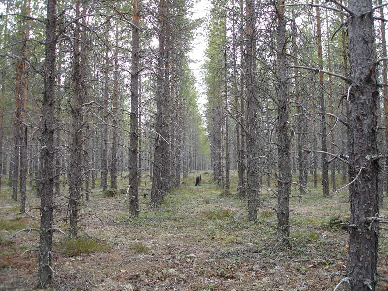 Plantation of Scots pine (Pinus sylvestris) on Älgbäcksheden in Lycksele municipality, northern Sweden. The trees were planted after a forest fire which took place in June 1968. N.b. the burnt stump in the middle of the picture.